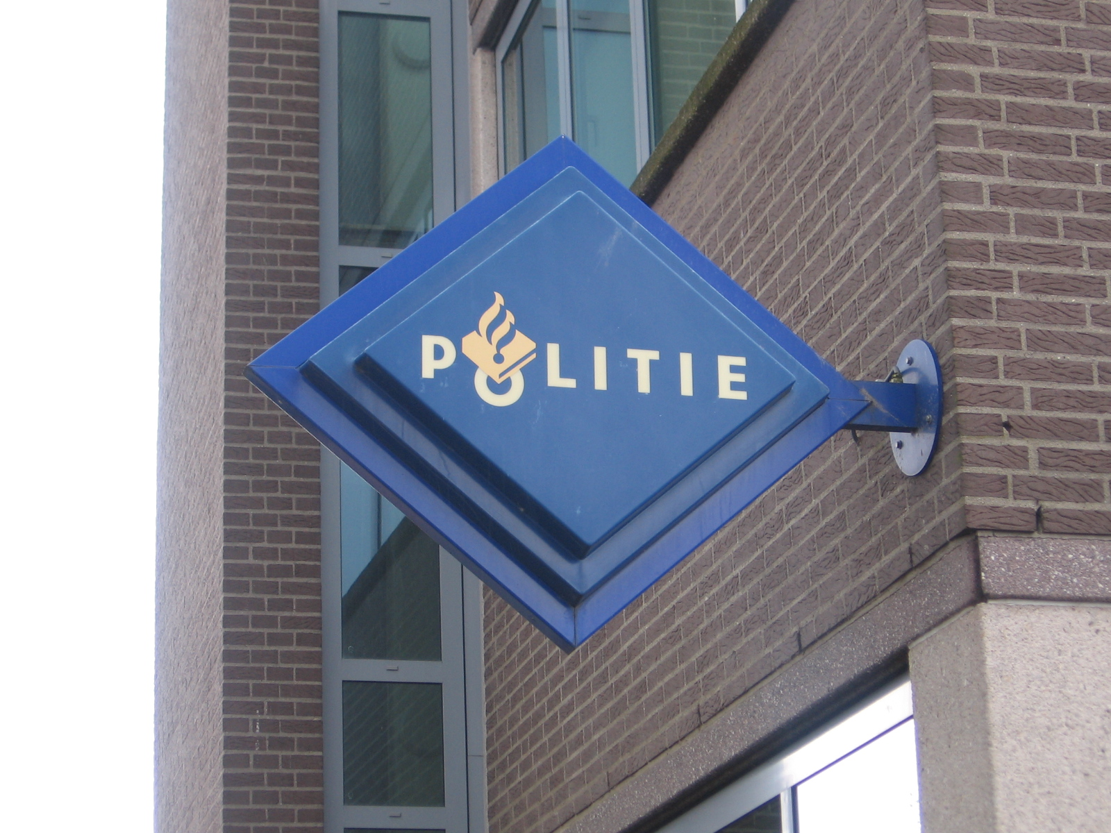 Politie logo / Police sign in the Netherlands